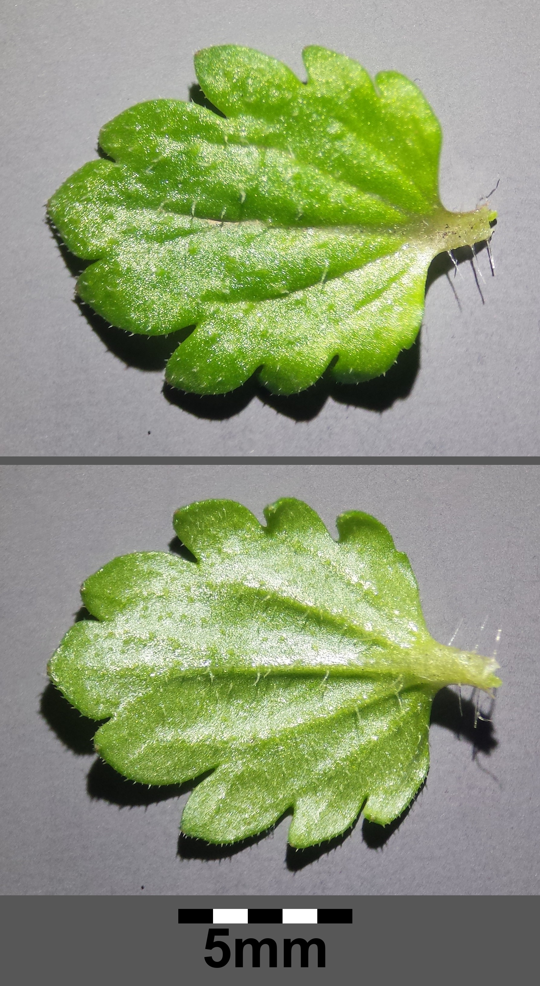 Bract, up top view, below bottom view Taxonym: Veronica persica ss Fischer et al. EfÖLS 2008 ISBN 978-3-85474-187-9 Location: Sinawastingasse, Vienna-Floridsdorf - ca. 160 m a.s.l. Habitat: slope